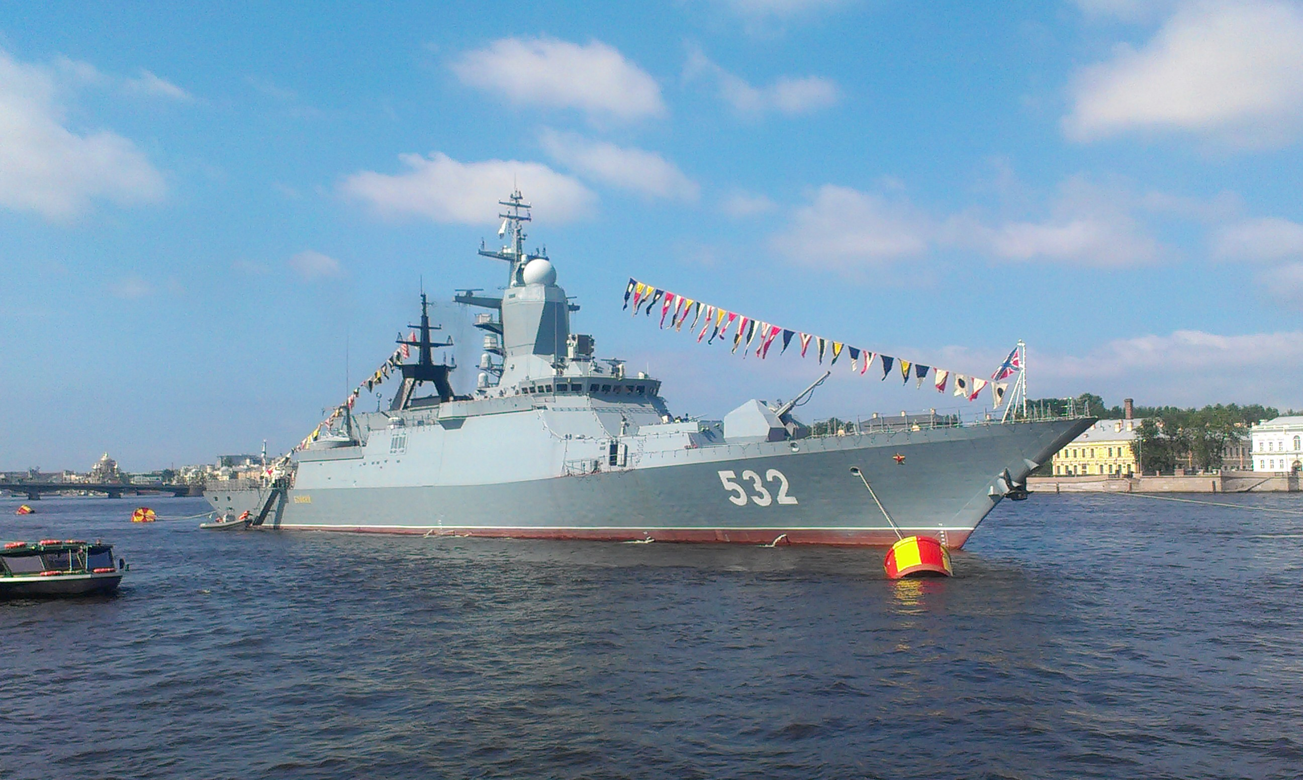 Russian corvette Bojkij (Бойкий) in St. Petersburg on Neva River (26 July 2013).